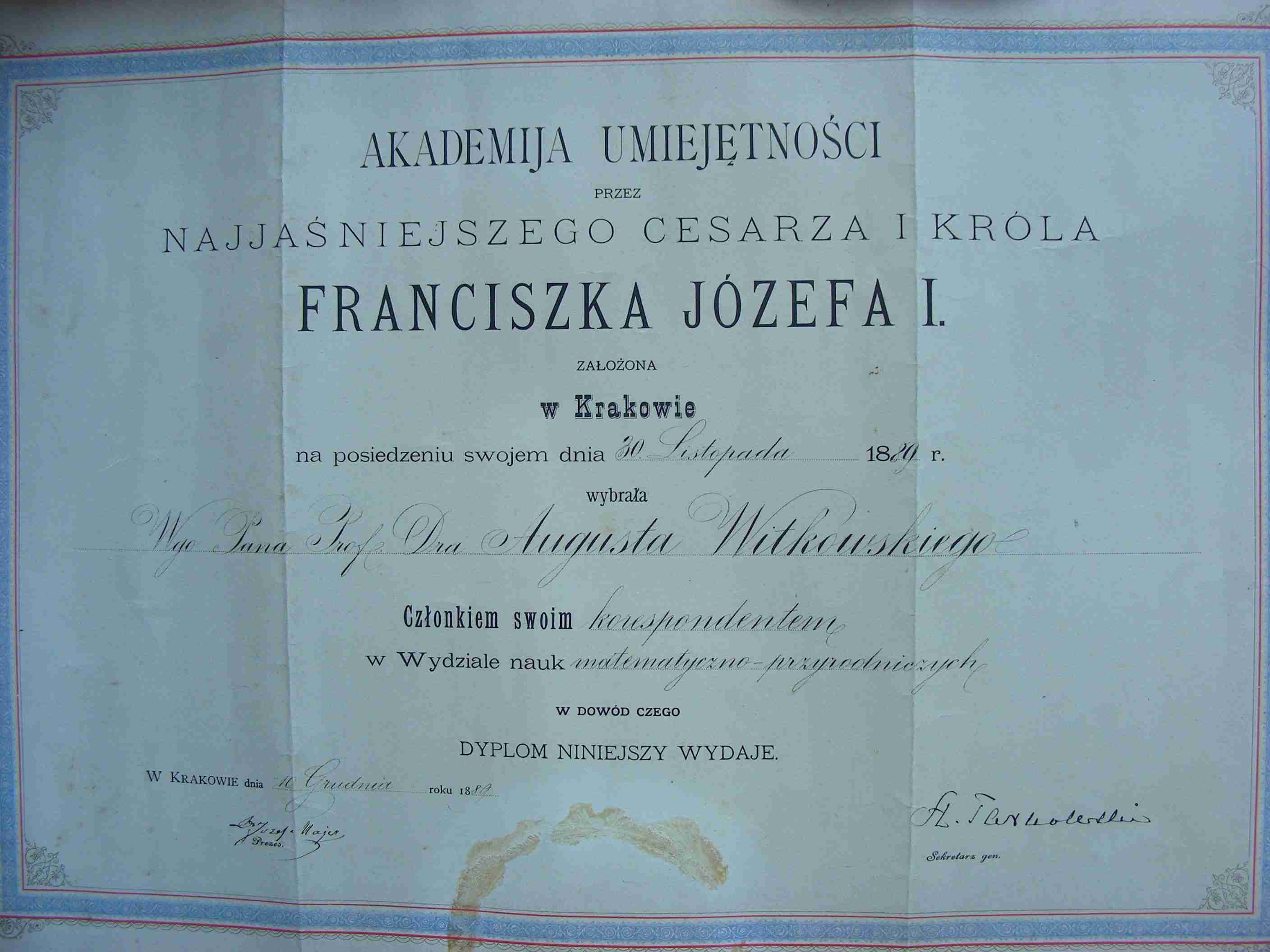 It's my own faithful copy of August Witkowski certificate of associateship of Akademy of Learning, Krakow, 1889